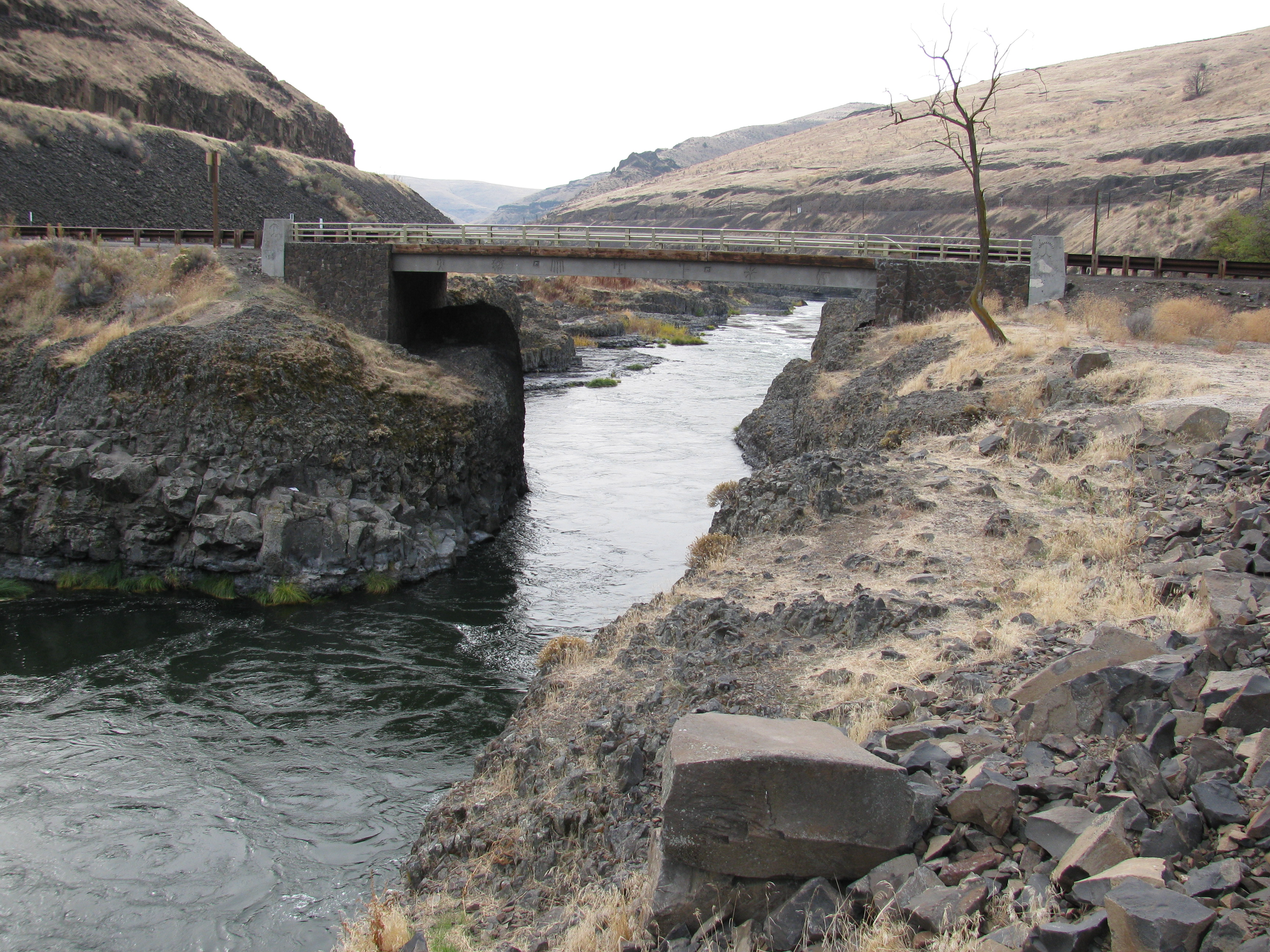 The narrows of the Deschutes where some of Meek's wagon train created a rope pulley to move people and wagon parts across